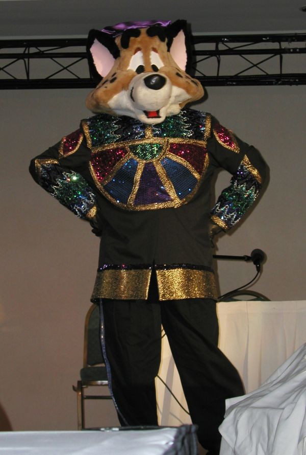 Photo of the host at the Iron Artist competition at Further Confusion 2002.